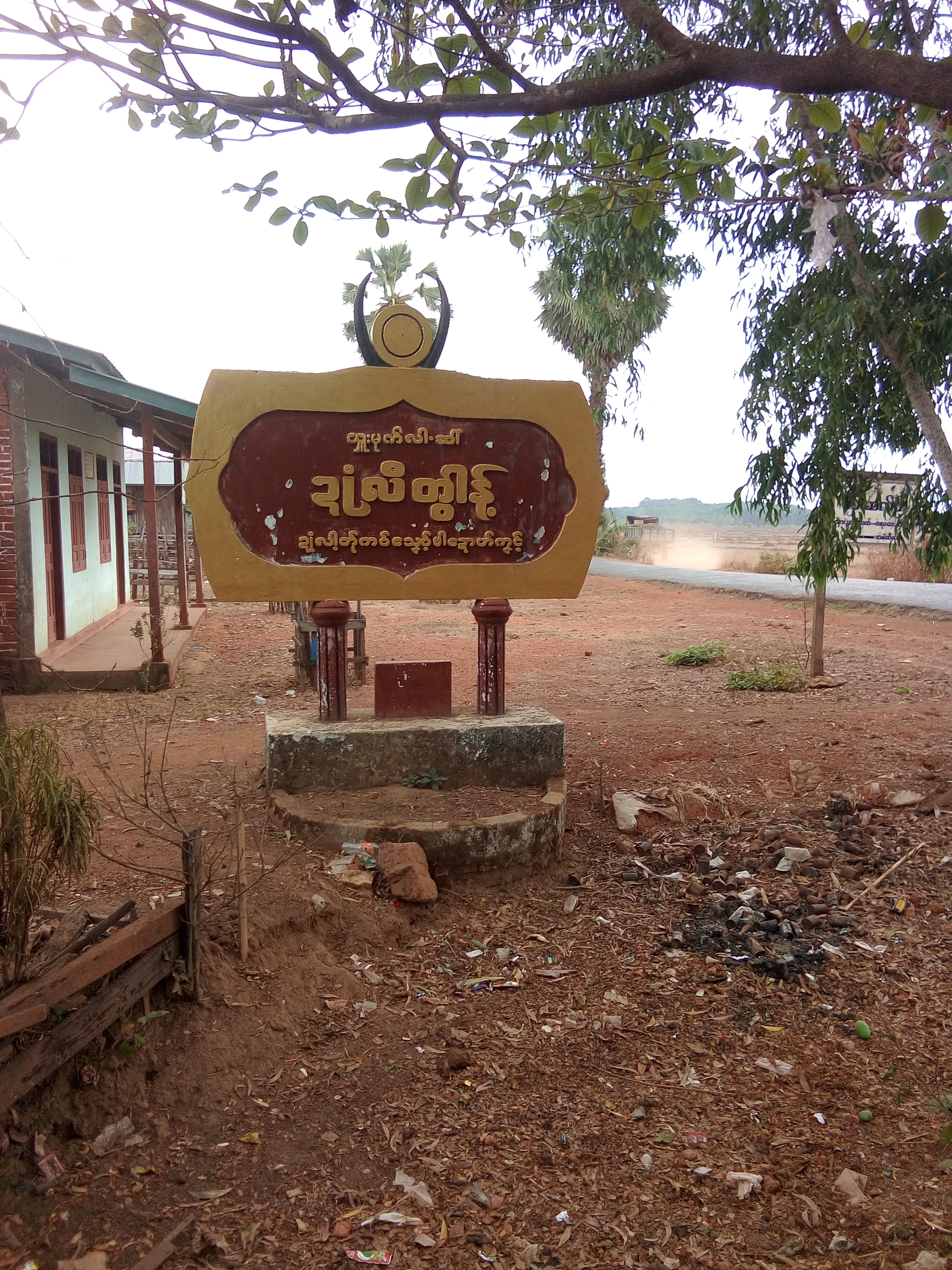 Doh-Li, Kayin language of Myohaung or Myoe Haung